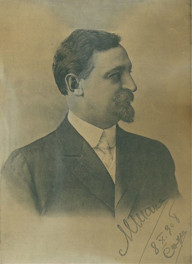 Bulgarian politician Mihail Takev